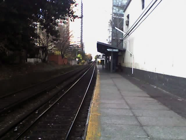 Ministro Carranza Train Station